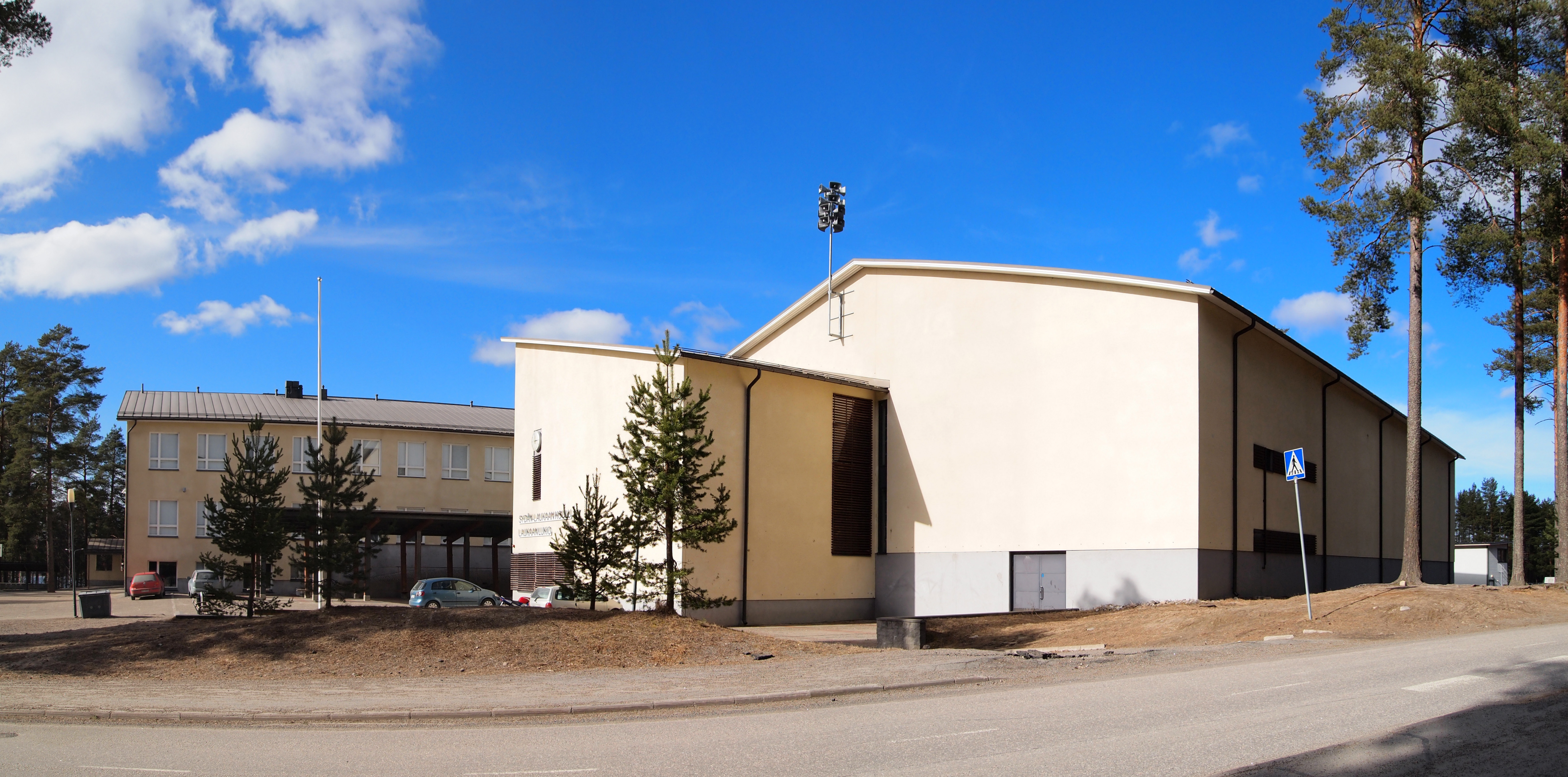 The school "Sydän-Laukaan koulu" and high school "Laukaan lukio" in Laukaa.